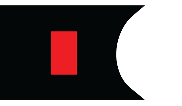 Based on David Nicolle "Armies of the Muslim Conquest" illustrations by Angus McBride. And Martin Hinds "The Banners and Battle Cries of the Arabs at Siffin" Al-Abhath XXIV